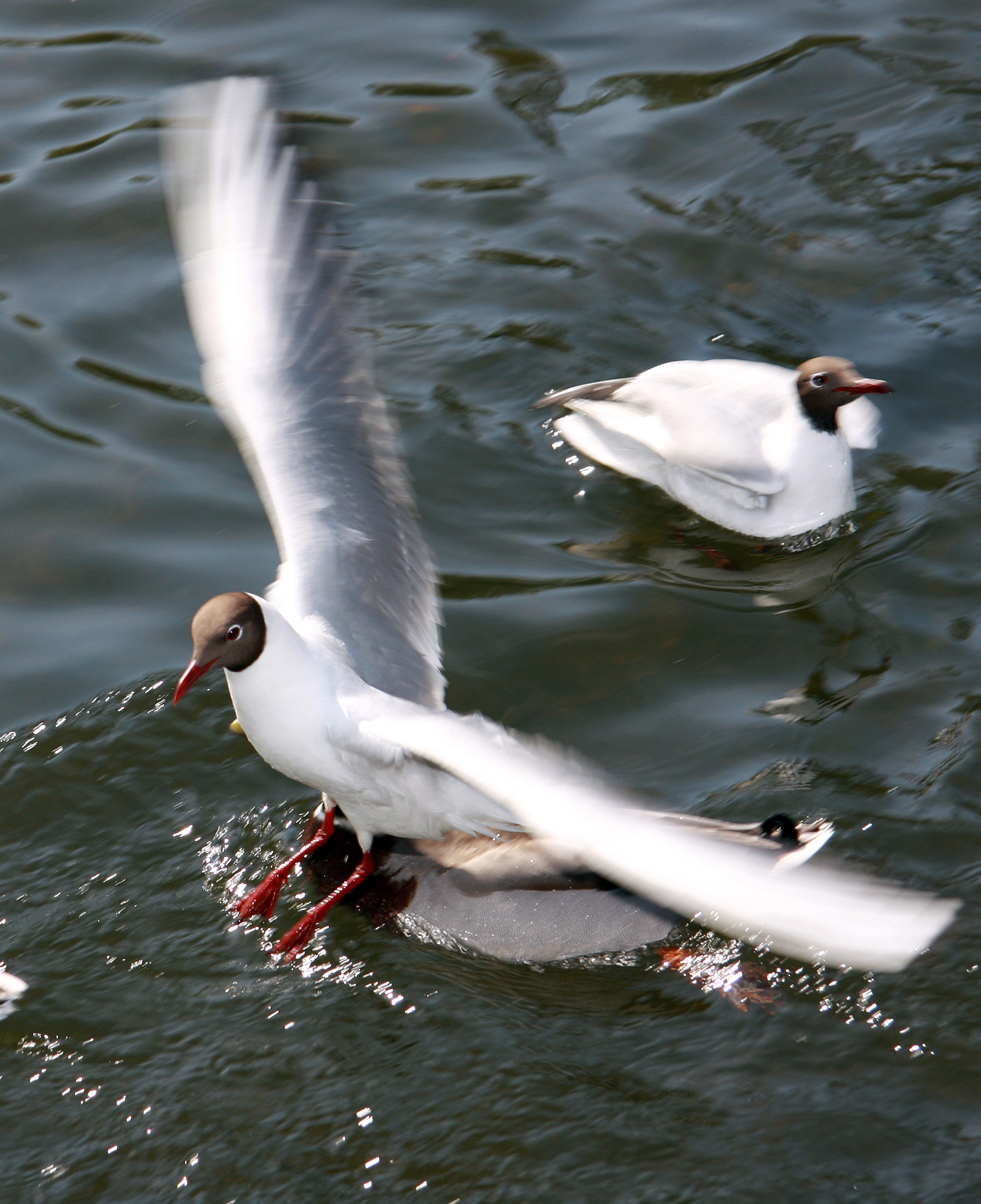 Black-headed Gull in Stadsparken city park in Lund, Sweden